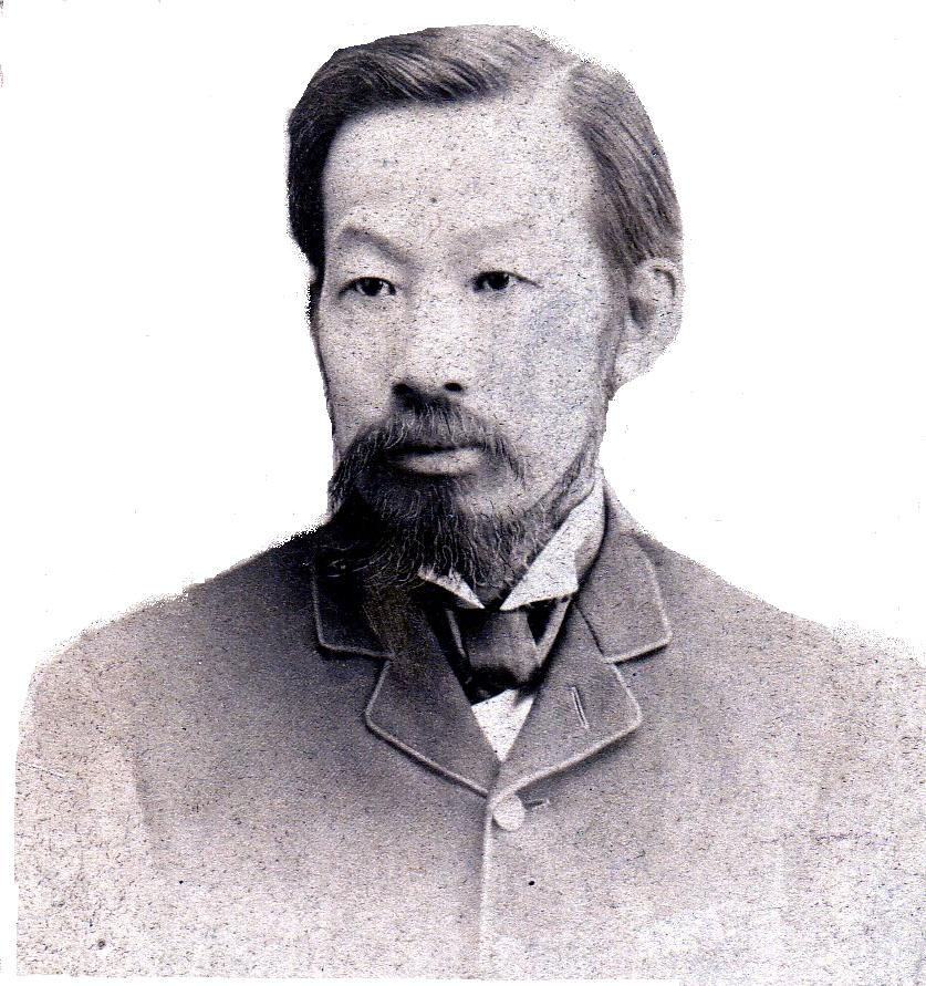 Shigetoshi Yoshihara